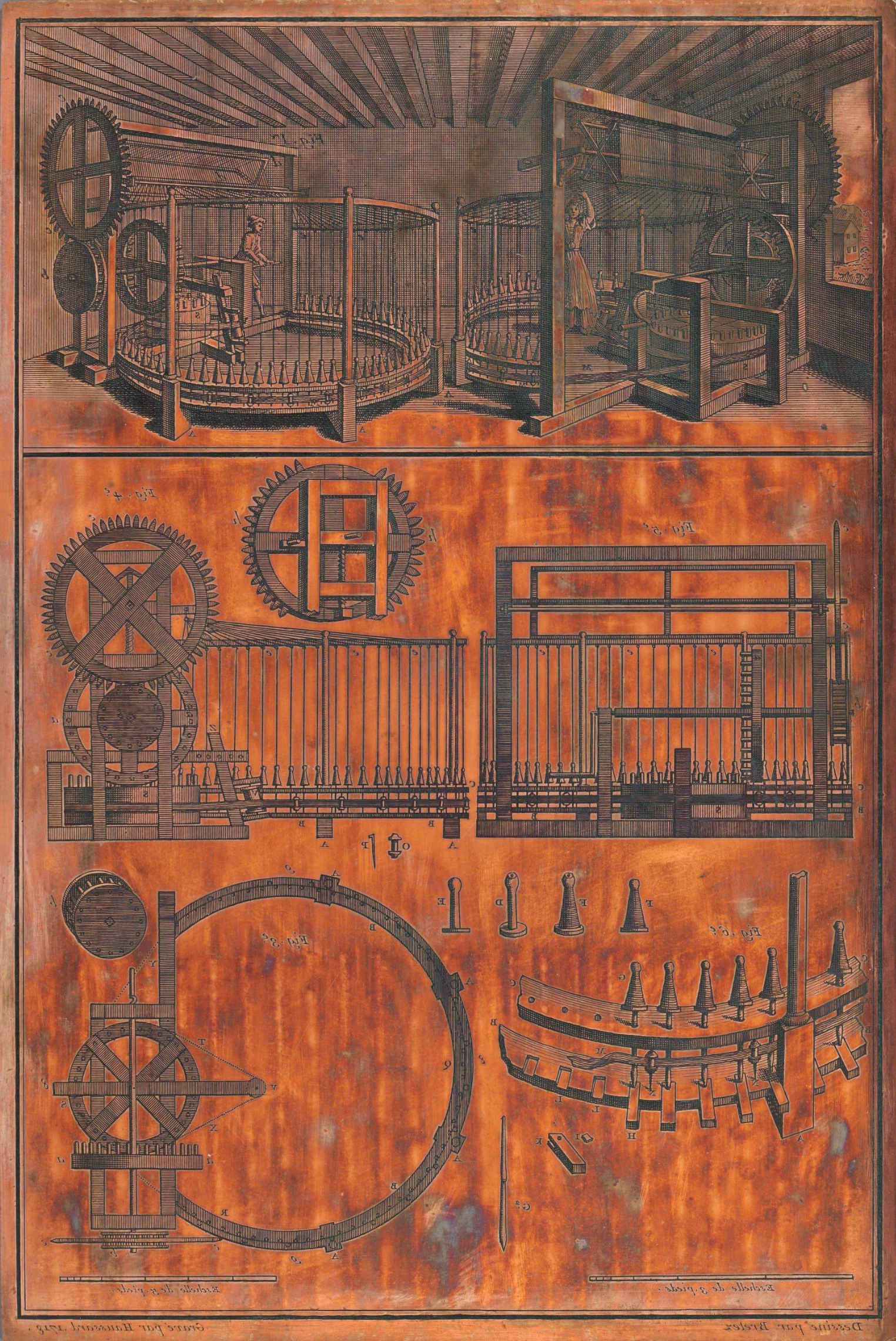 Copper plate for Description des arts et métiers. [ca. 1713-1720]. TypR-75, Houghton Library, Harvard University